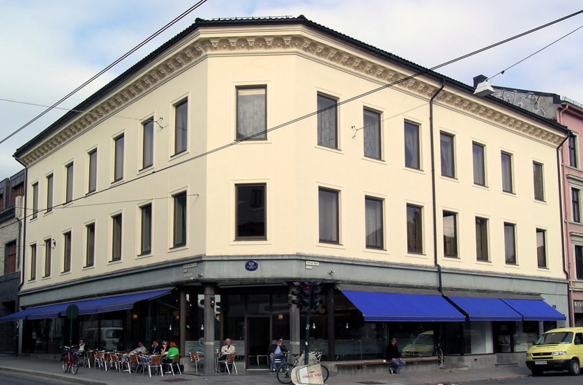 Schous plass 1, Oslo, Norway. Edvard Munch lived and worked here in the 1880s.